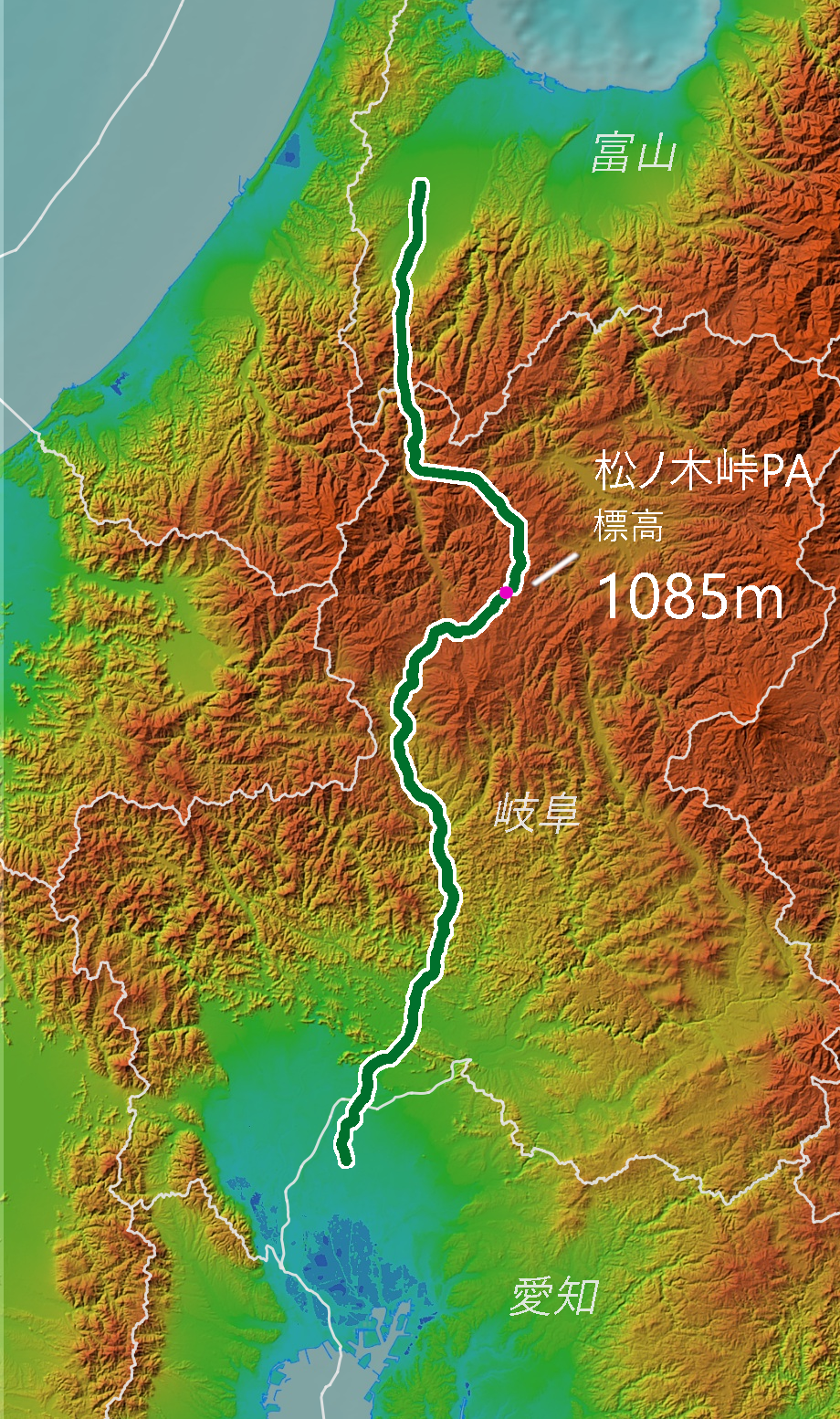 A route map of Tōkai-Hokuriku Expressway. The background map is "色別標高図" (Geographic institute tile) created by Geospatial Information Authority of Japan and Japan Coast Guard Hydrographic and Oceanographic Department.